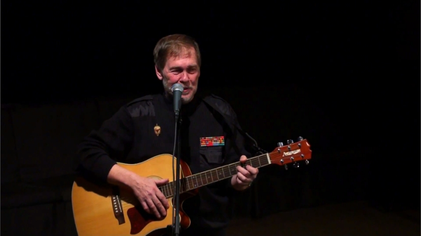 Russian songwriter and singer Col. Igor Morozov performs solo live at the Mayakovsky Museum, Moscow, December 13, 2011.